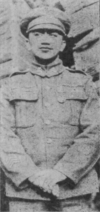 George Healii Kahea Beckley